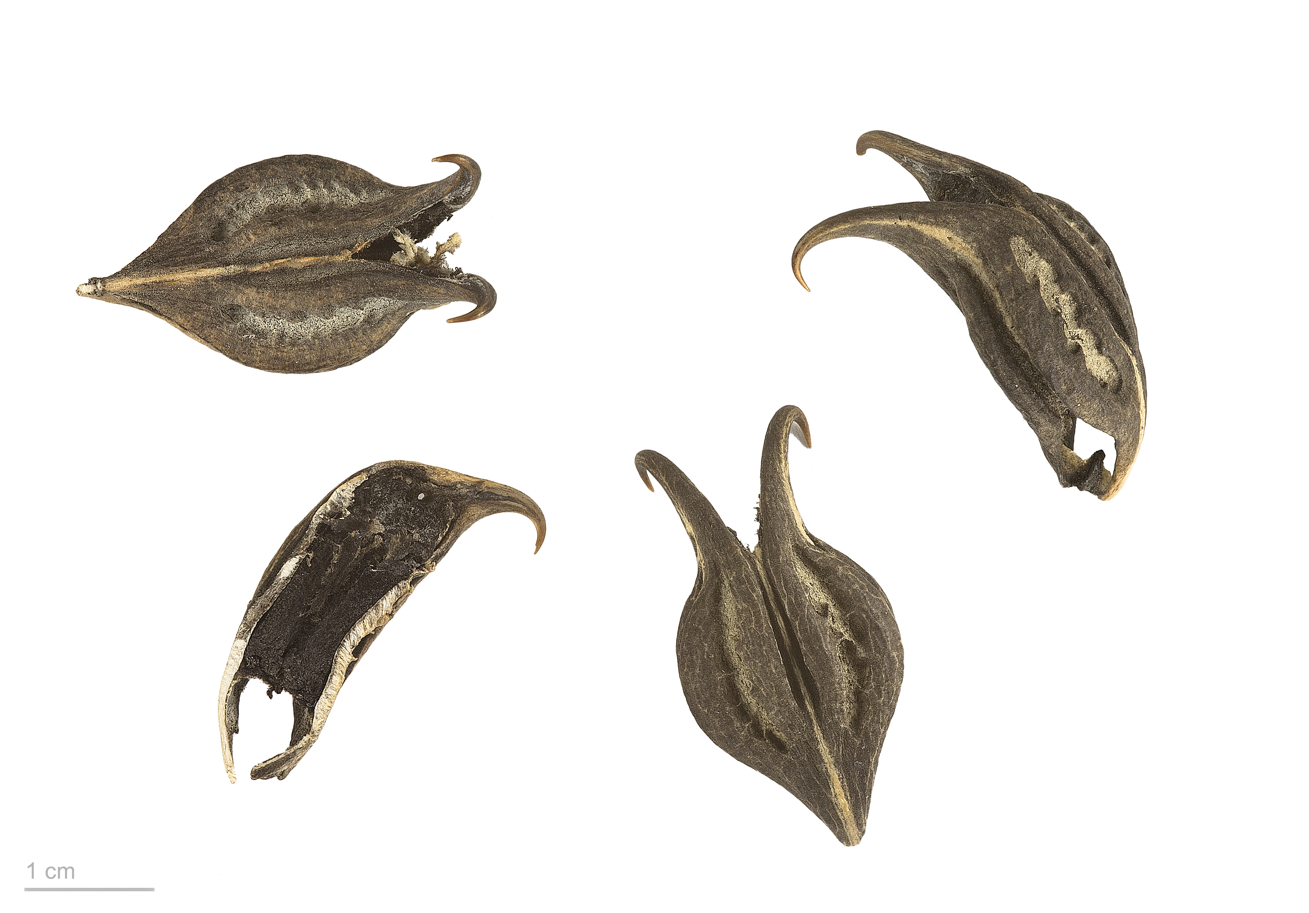 Martynia annua, cat's claw, fruits